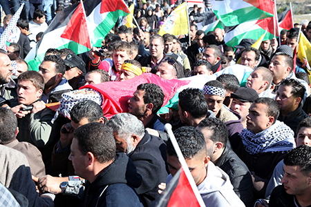 Thousands of Palestinian participated the funeral of Mustafa Tamimi where his body, wrapped in a Palestinian flag, was moved from hospital in Ramallah to 10 kilometers north Nabi Saleh in West Bank. Mustafa Tamimi, a 28 year old Palestinian taxi driver, was fatally shot by Israeli forces in 9 December 2011 during a weekly protest in Nabi Salih, West Bank.